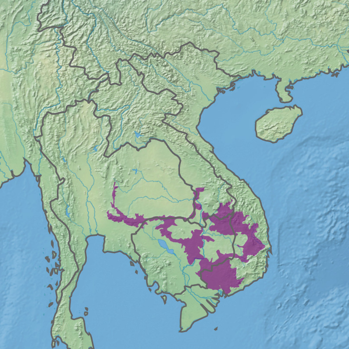 Ecoregion IM0210 - Southeastern Indochina dry evergreen forests (in purple)